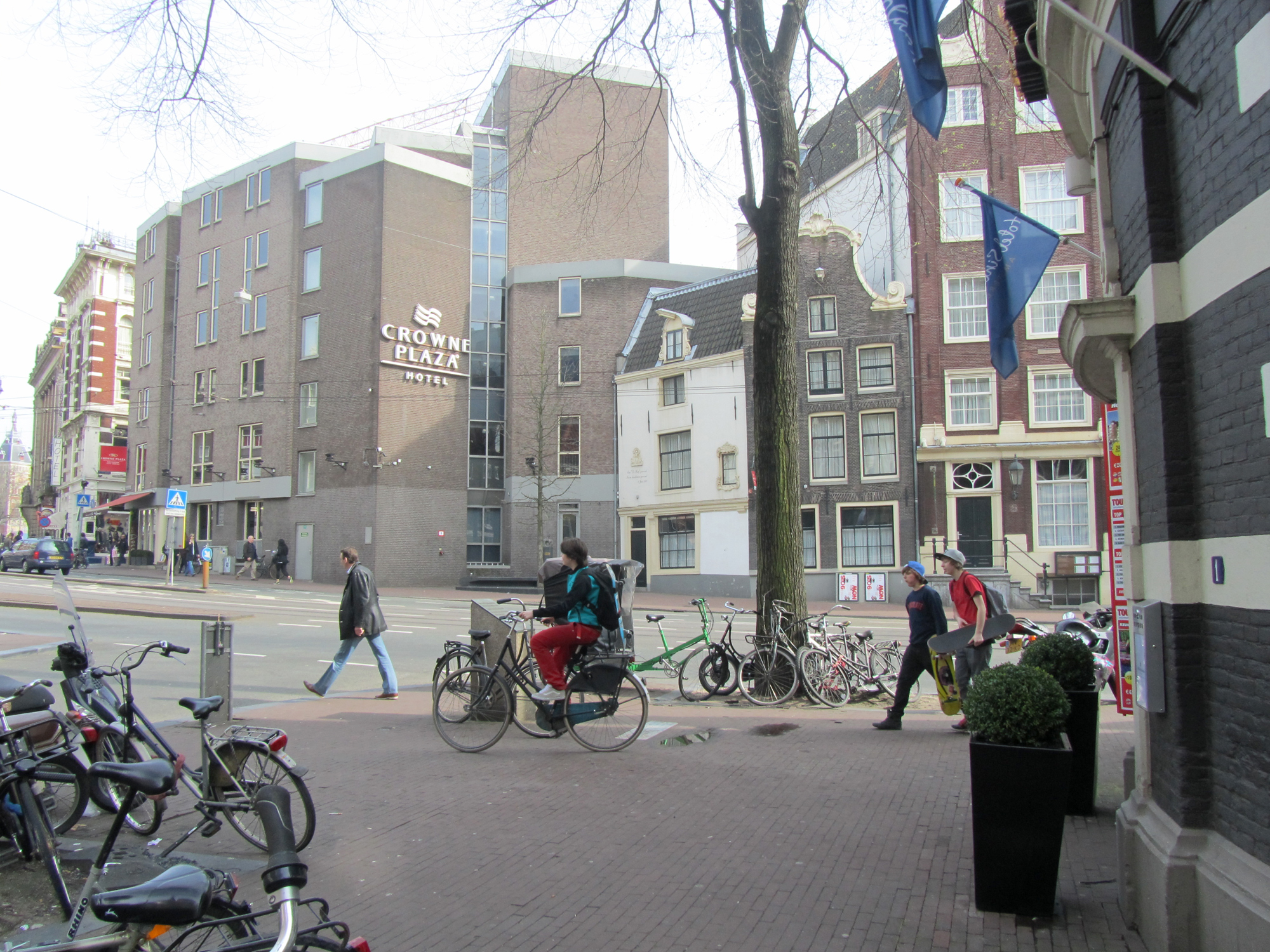 Hekelveld square in Amsterdam, looking east